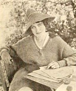 Screenwriter Jeanie MacPherson on page 1251 of the August 9, 1919 Motion Picture News. The photograph caption states that it shows her working on the script for Male and Female (1919).